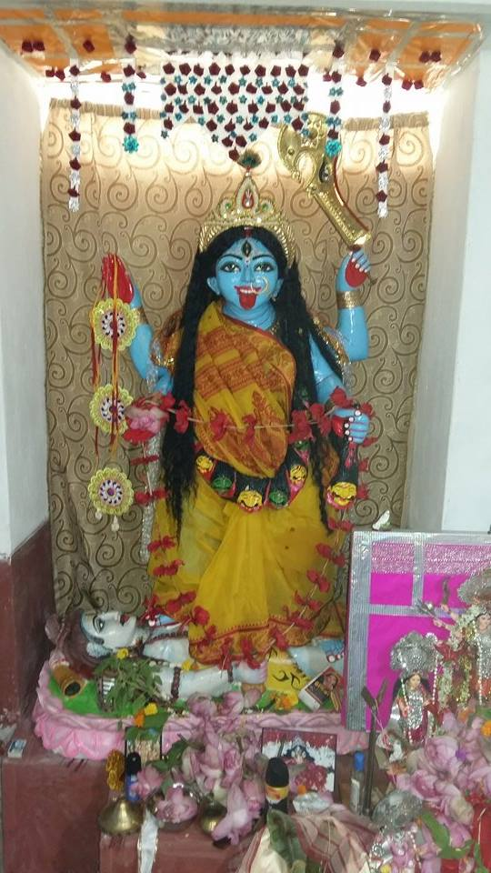 kali_on_durga_puja